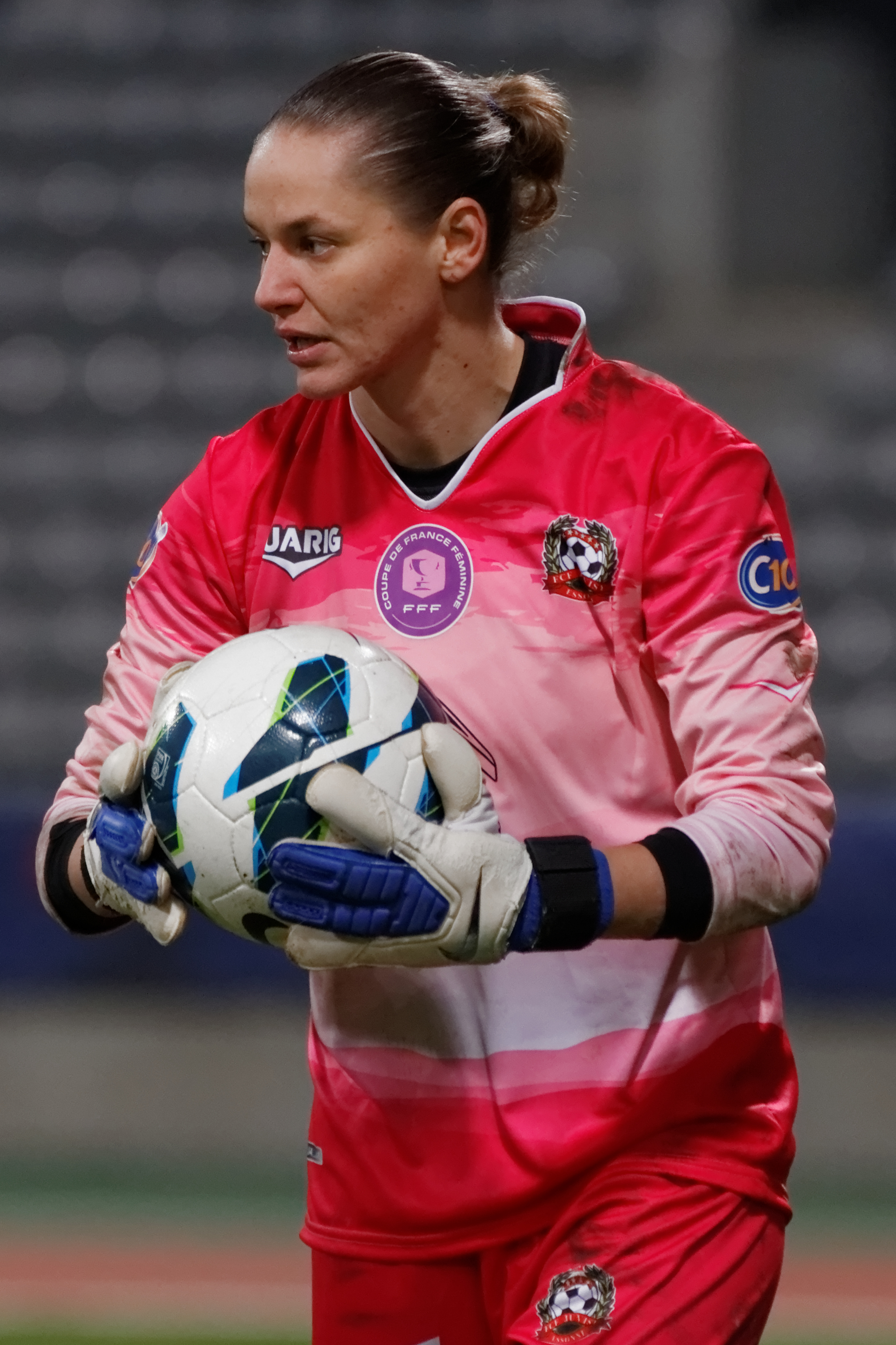 PSG-Juvisy, March 23th, 2013.